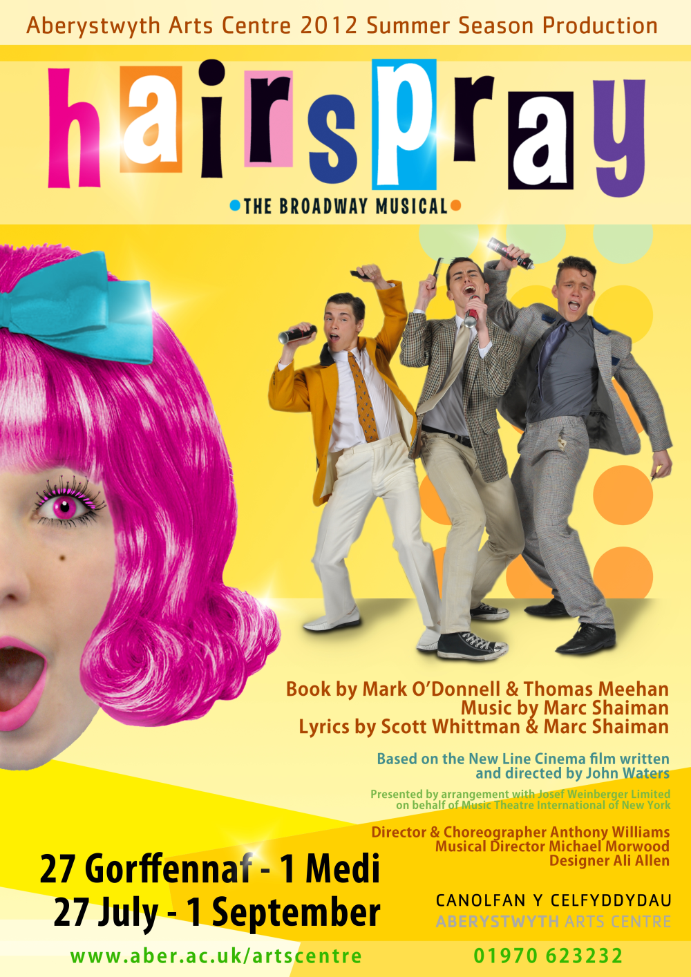 Hairspray the Musical 2012 Aberystwyth Arts Centre Summer Season production poster.